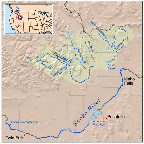 Map showing the lost streams of Idaho.